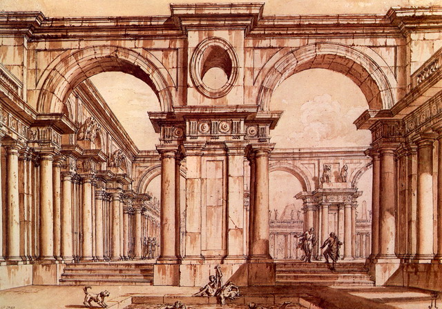 Sketch Landscape "Impperator Titus» opera